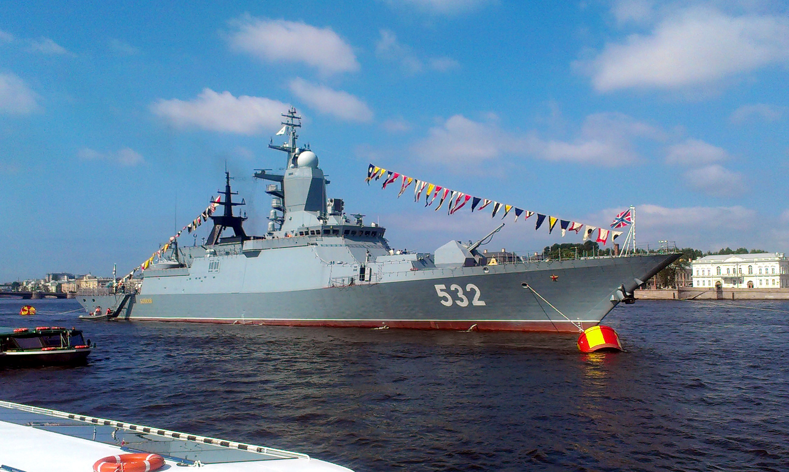 Russian corvette Bojkij (Бойкий) in St. Petersburg on Neva River (26 July 2013).